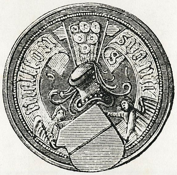 Great seal of Swedish regent Svante Nilsson Sture (1460-1512), as released by image scanner Ristesson